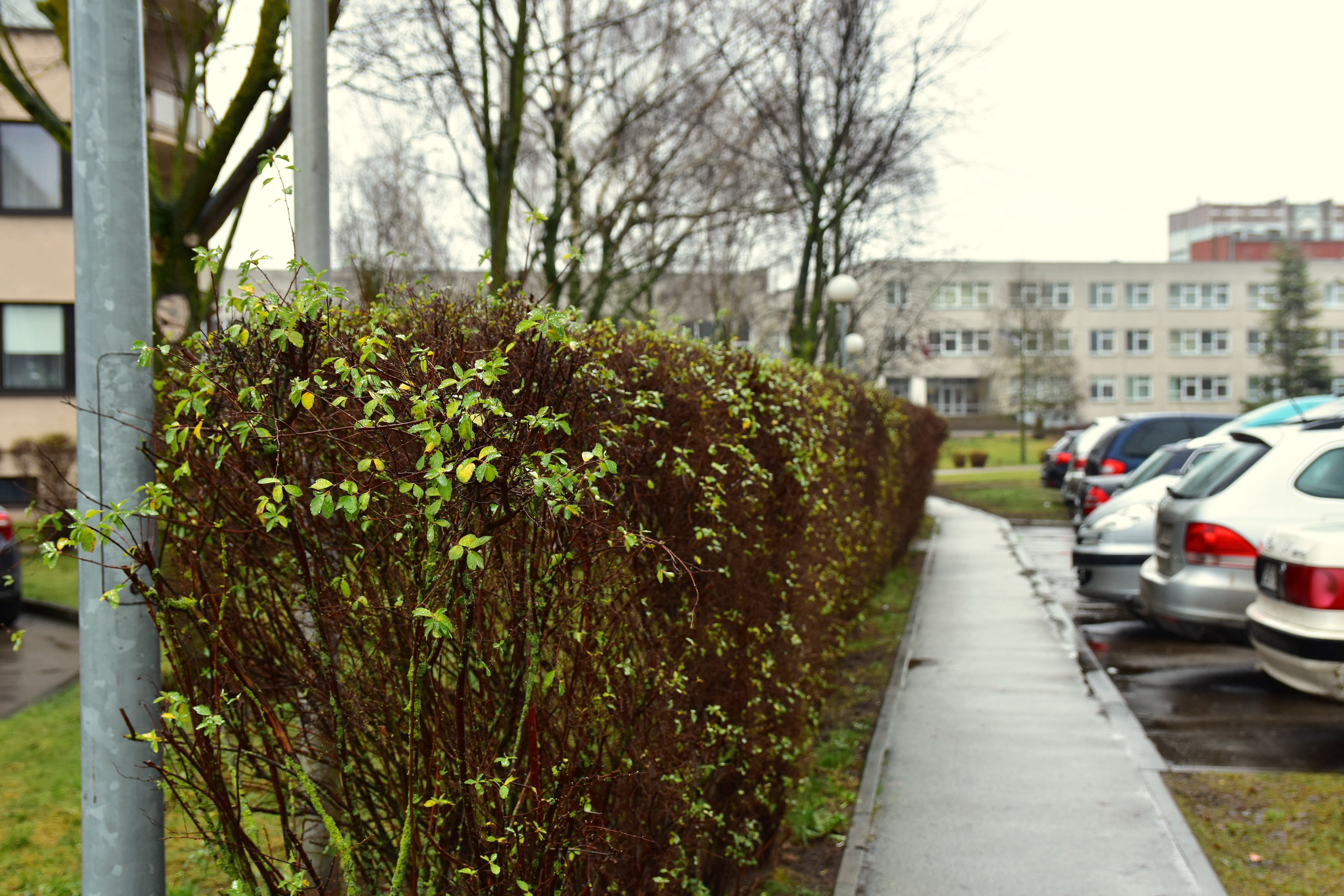 Pļavnieku Street in Riga. Bushes in winter.